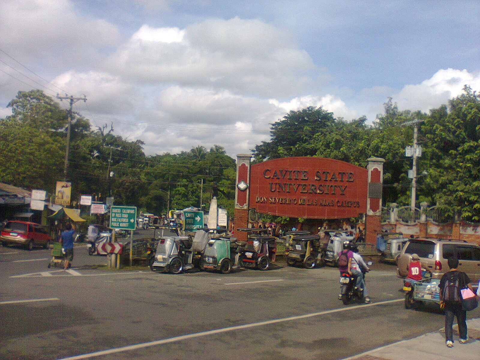 A Tricyle terminal (toda) near Cavite State University's Main Campus in Indang, Cavite.